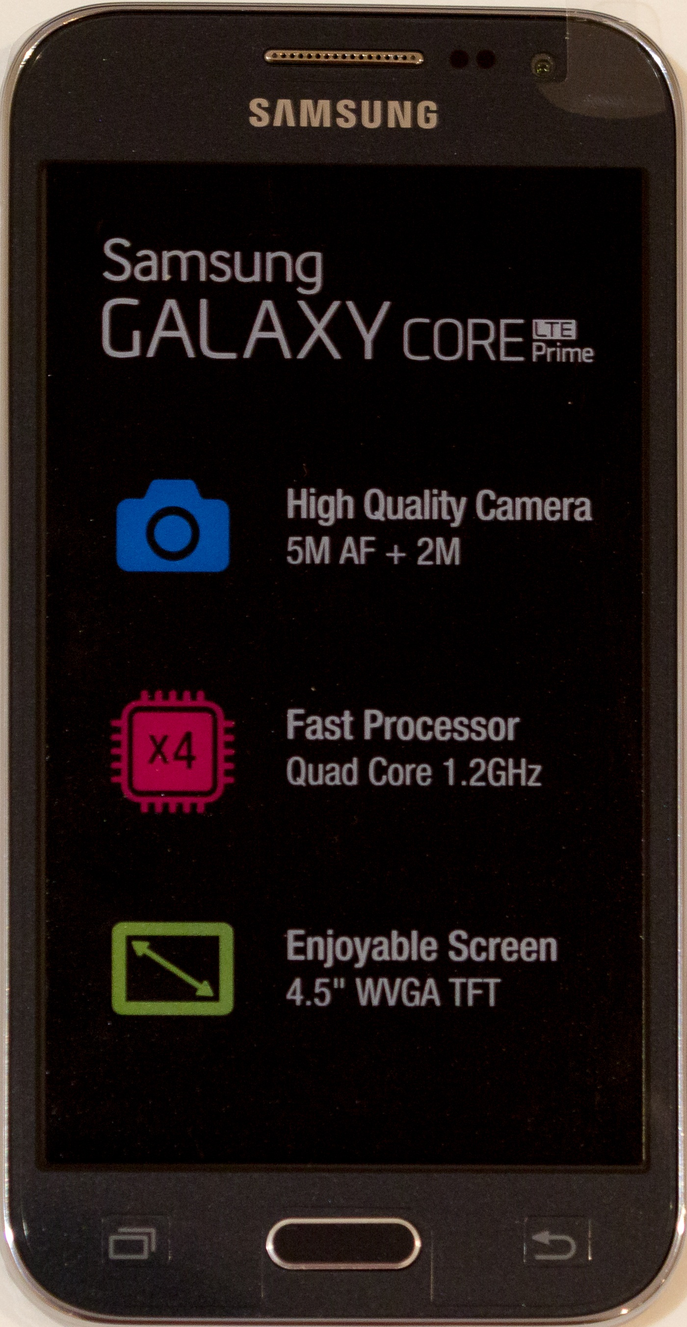 Samsung Galaxy Core Prime LTE charcoal gray